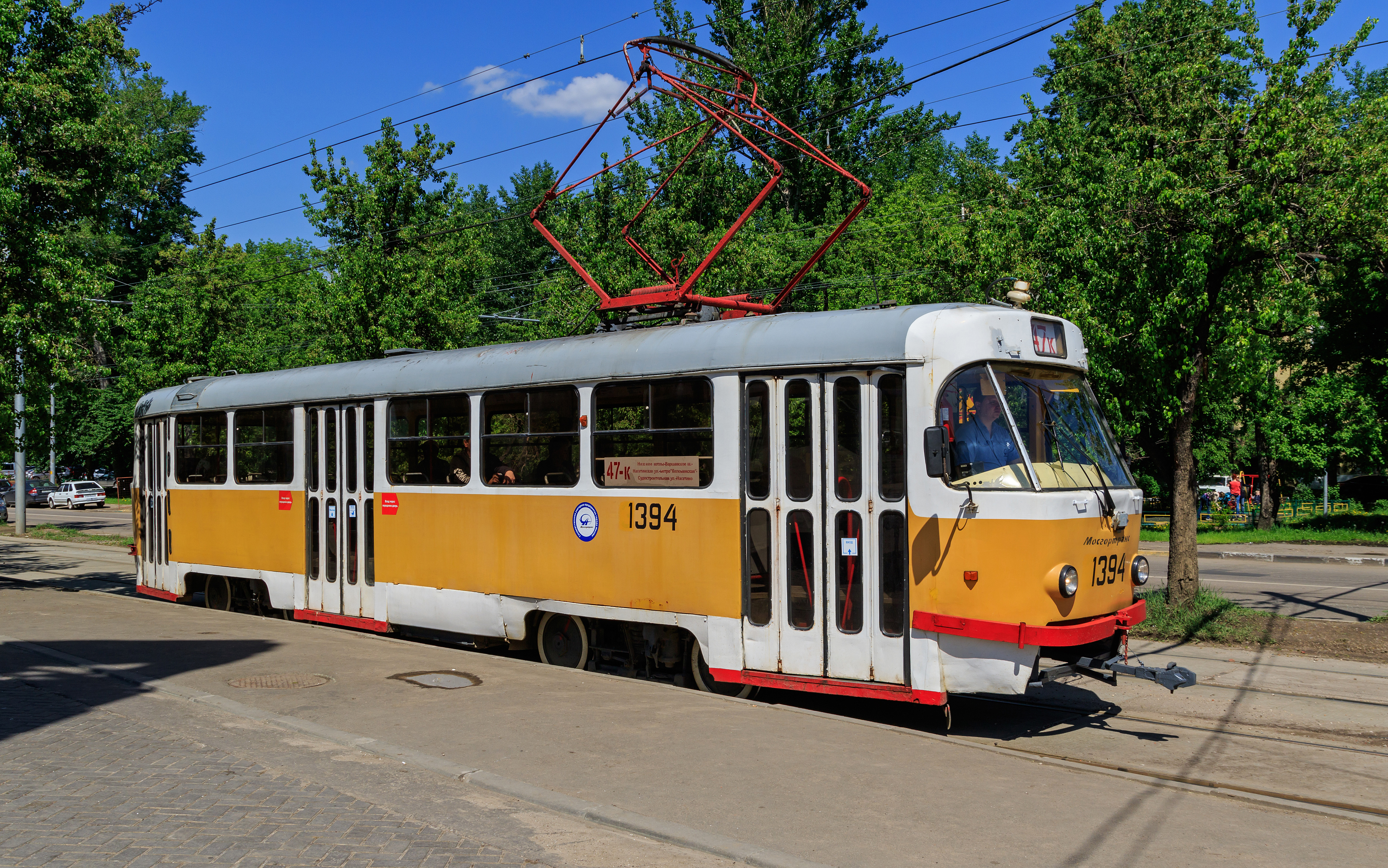 Nagatino-Sadovniki district of Moscow, a tram on Nagatinskaya Street